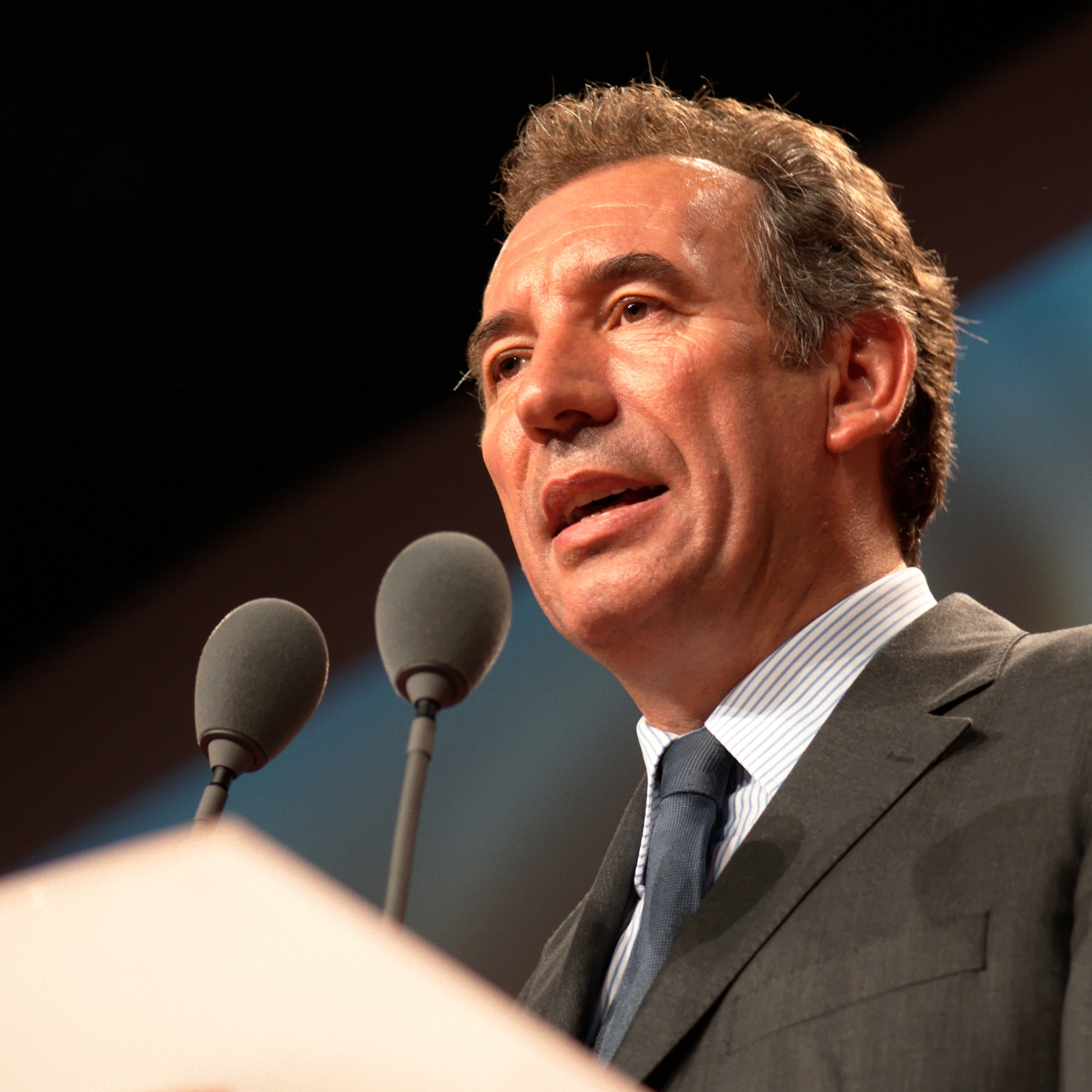 François Bayrou at the rally held on Apr. 18, 2007 at Paris Bercy.